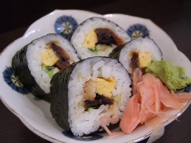 My Niku Udon set came with this rather nice sushi. I'm not sure what the filling was. There was egg, cucumber, brown pickle and an unknown dried fish. Sushi Monger Melbourne